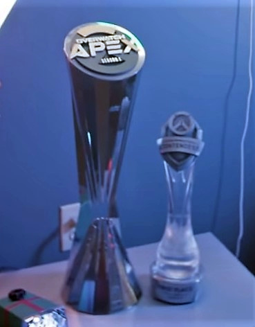 The APEX Season 1 and Overwatch Contenders trophies won by Team Envy.